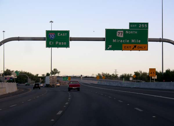 Interstate 10 east at Miracle Mile in Tucson, Arizona.